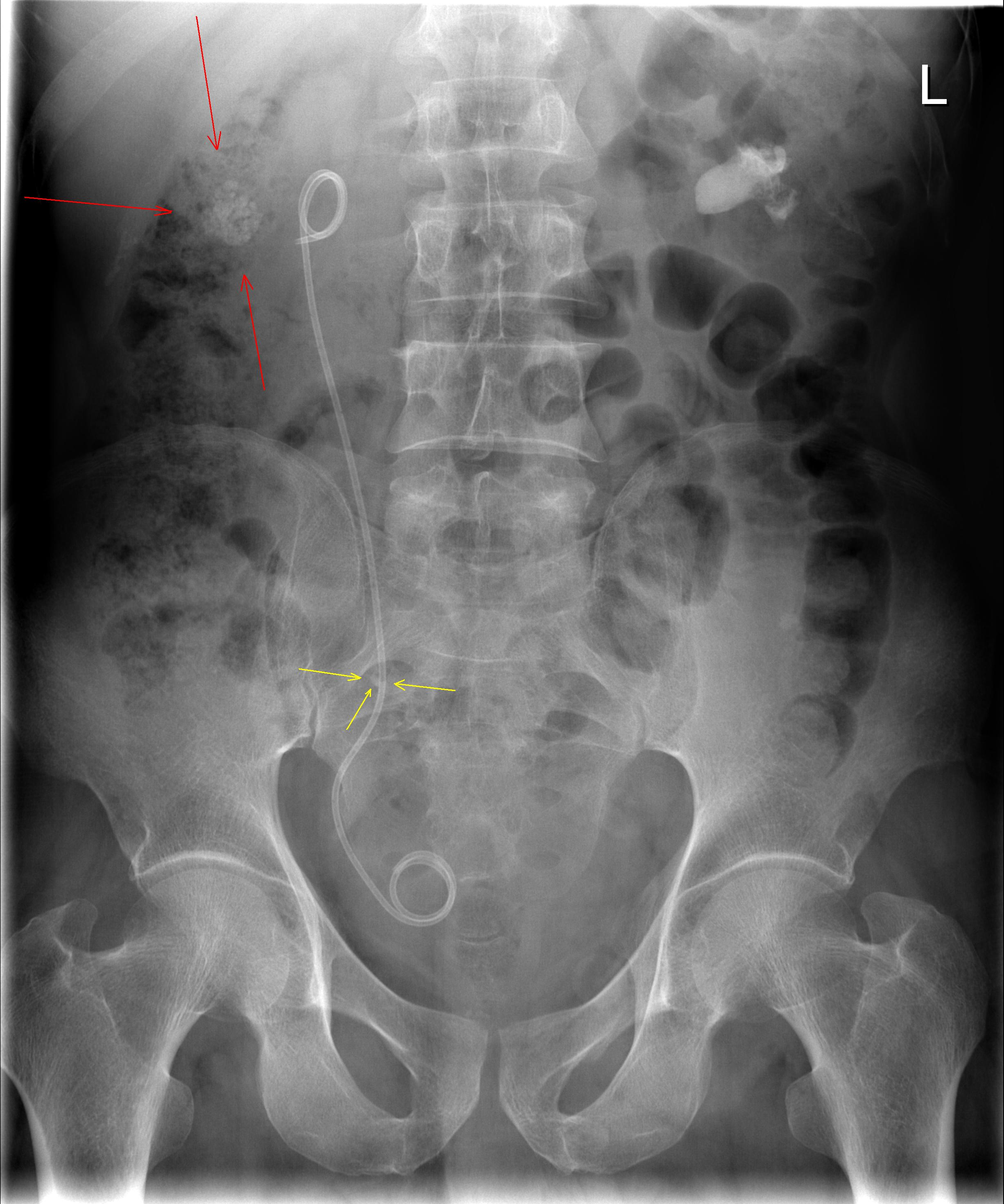 X-ray of the abdomen, with nefrolithiasis and a double-J catheter.